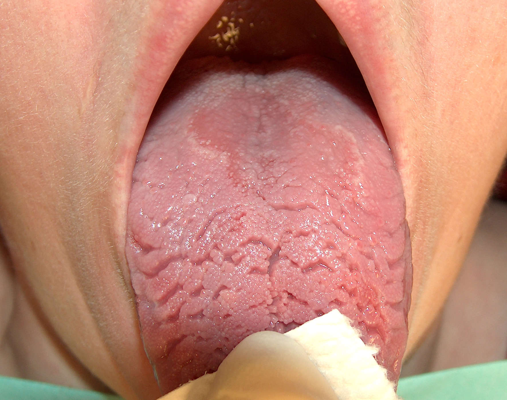 Fissured and geographic tongue. Caused by unhealthy bacteria in the mouth, stomach, or lack of vitamin B12.